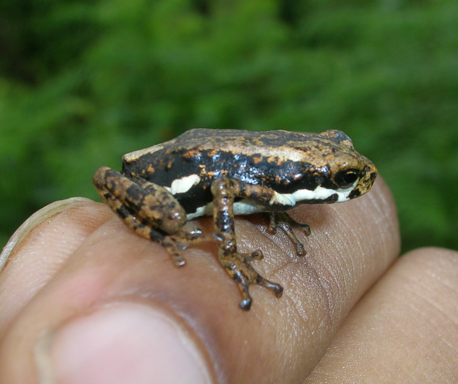 Pedostibes tuberculosus, Malabar Tree Toad (from Wayanad)